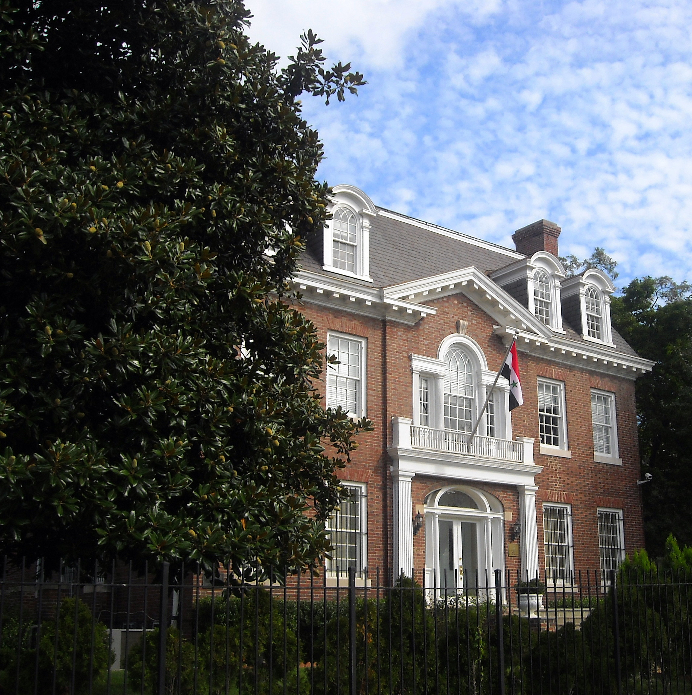 Embassy of Syria at 2215 Wyoming Avenue, NW in the Kalorama neighborhood of Washington, D.C.